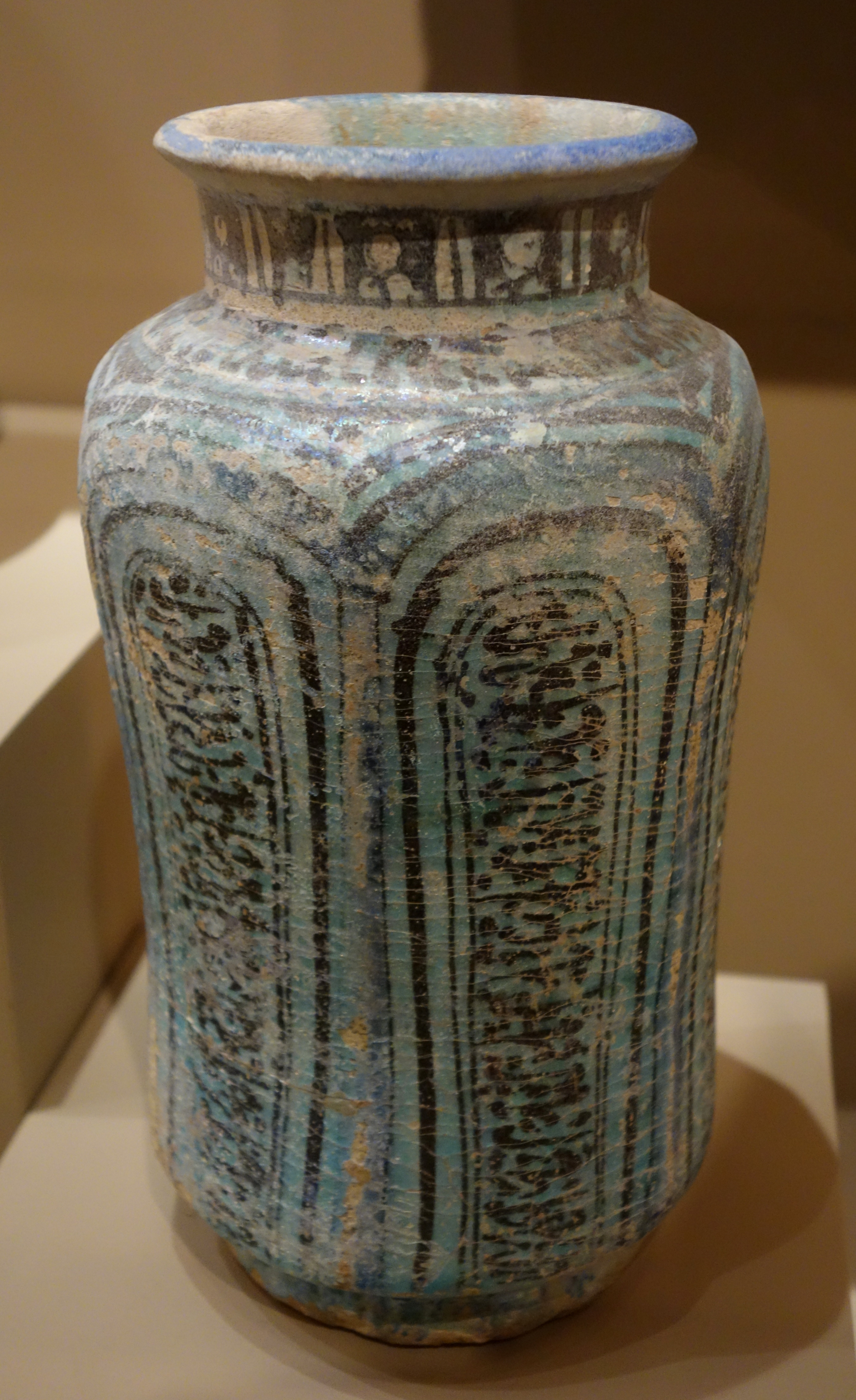 Exhibit in the Huntington Museum of Art, Huntington, West Virginia, USA. This artwork is in the public domain because the artist died more than 70 years ago.